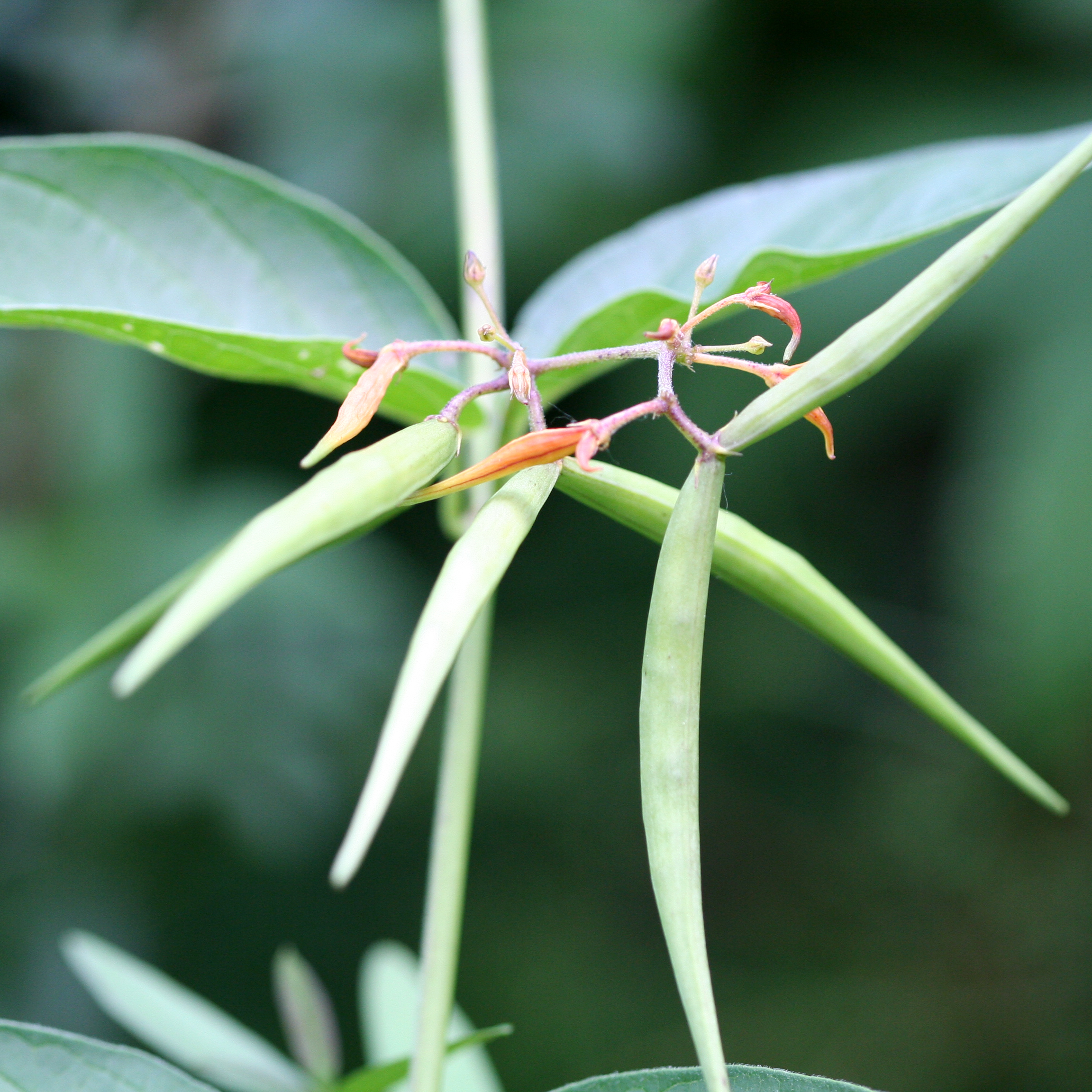 Vincetoxicum rossicum (pale swallowwort), at the Skaneateles Conservation Area, Onondaga County, New York.